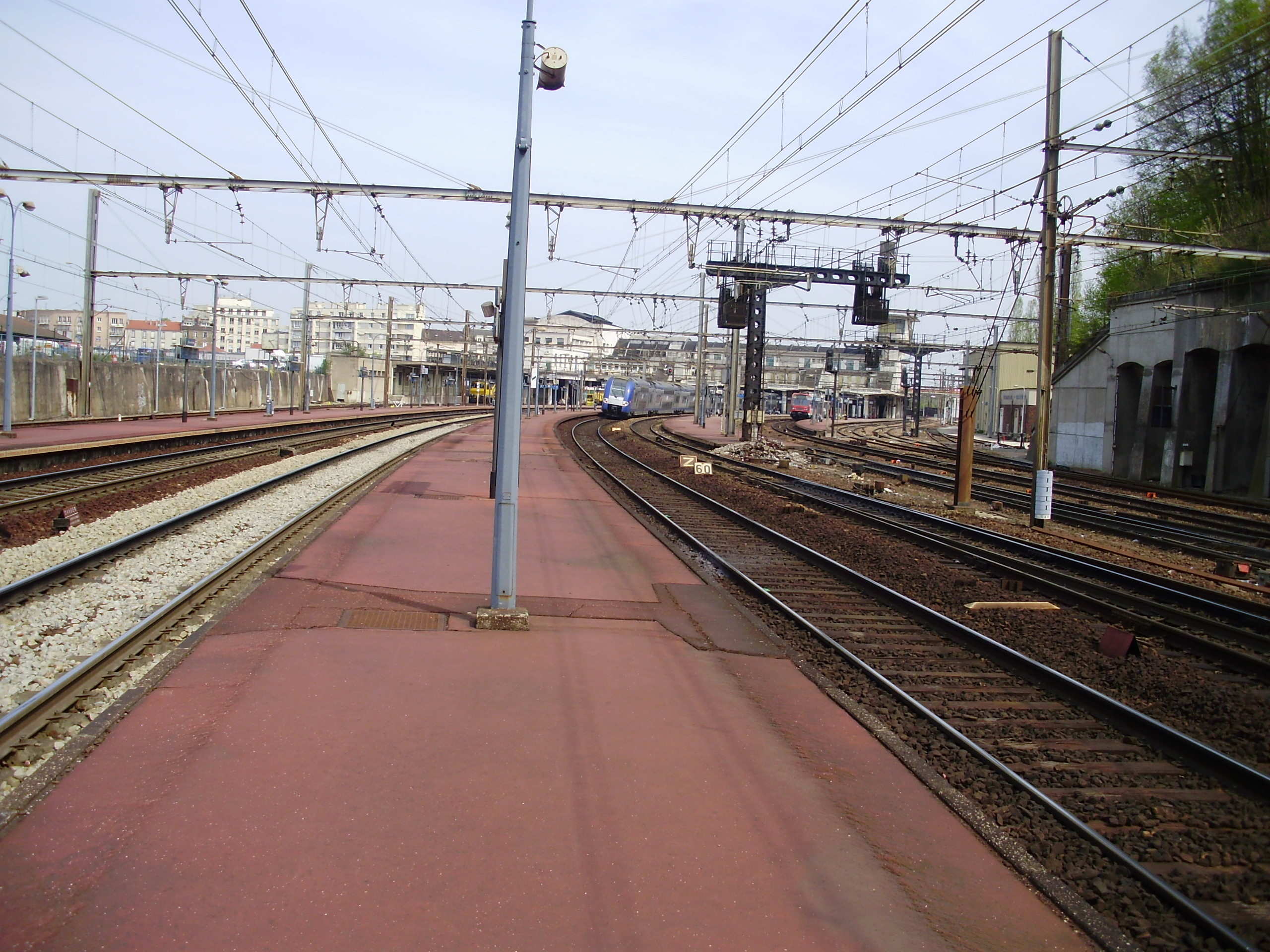 Versailles-Chantiers station, Yvelines, France - view of the platforms since south-west extremity